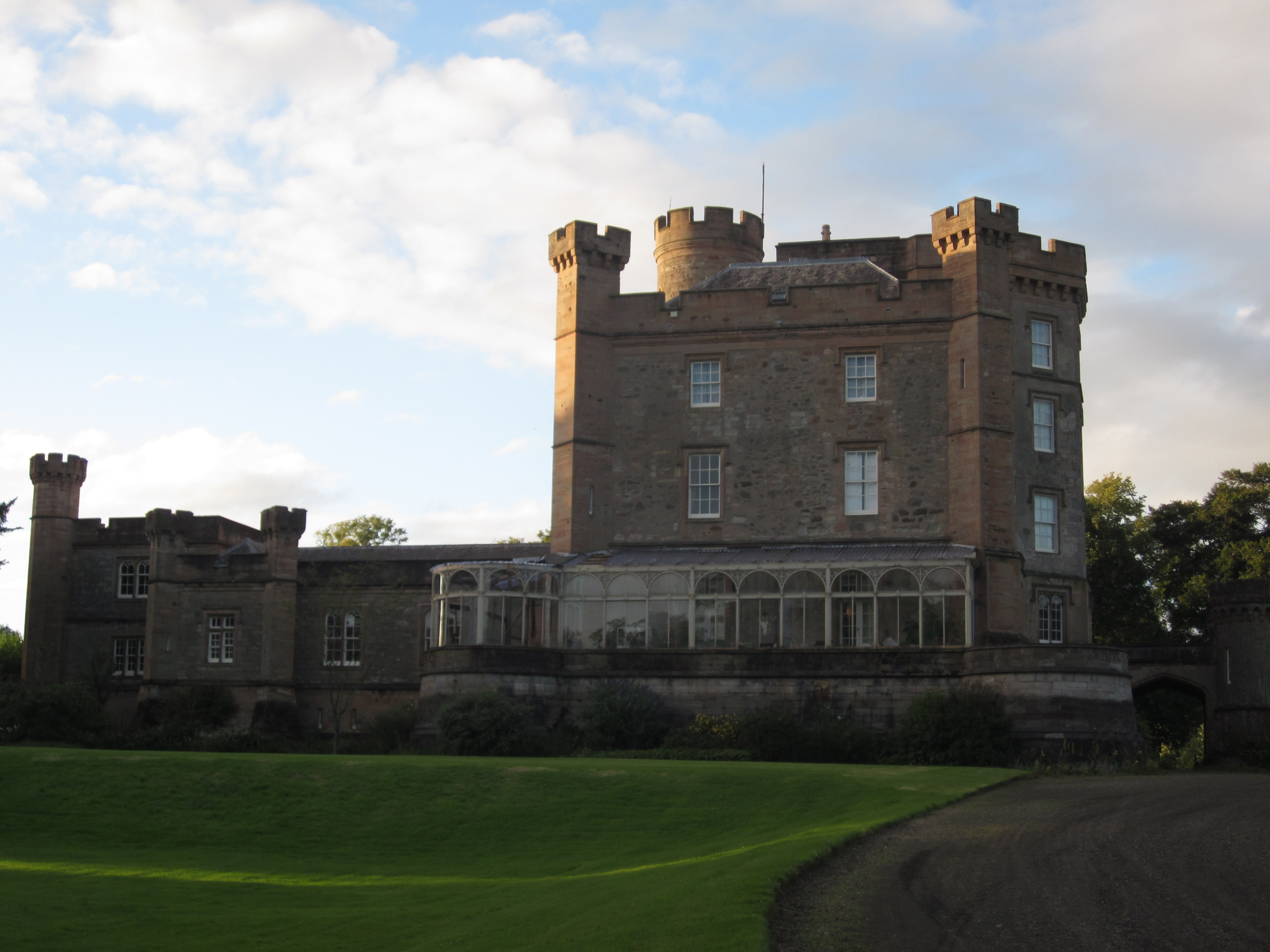 Photo of Caprington Castle, taken by myself.